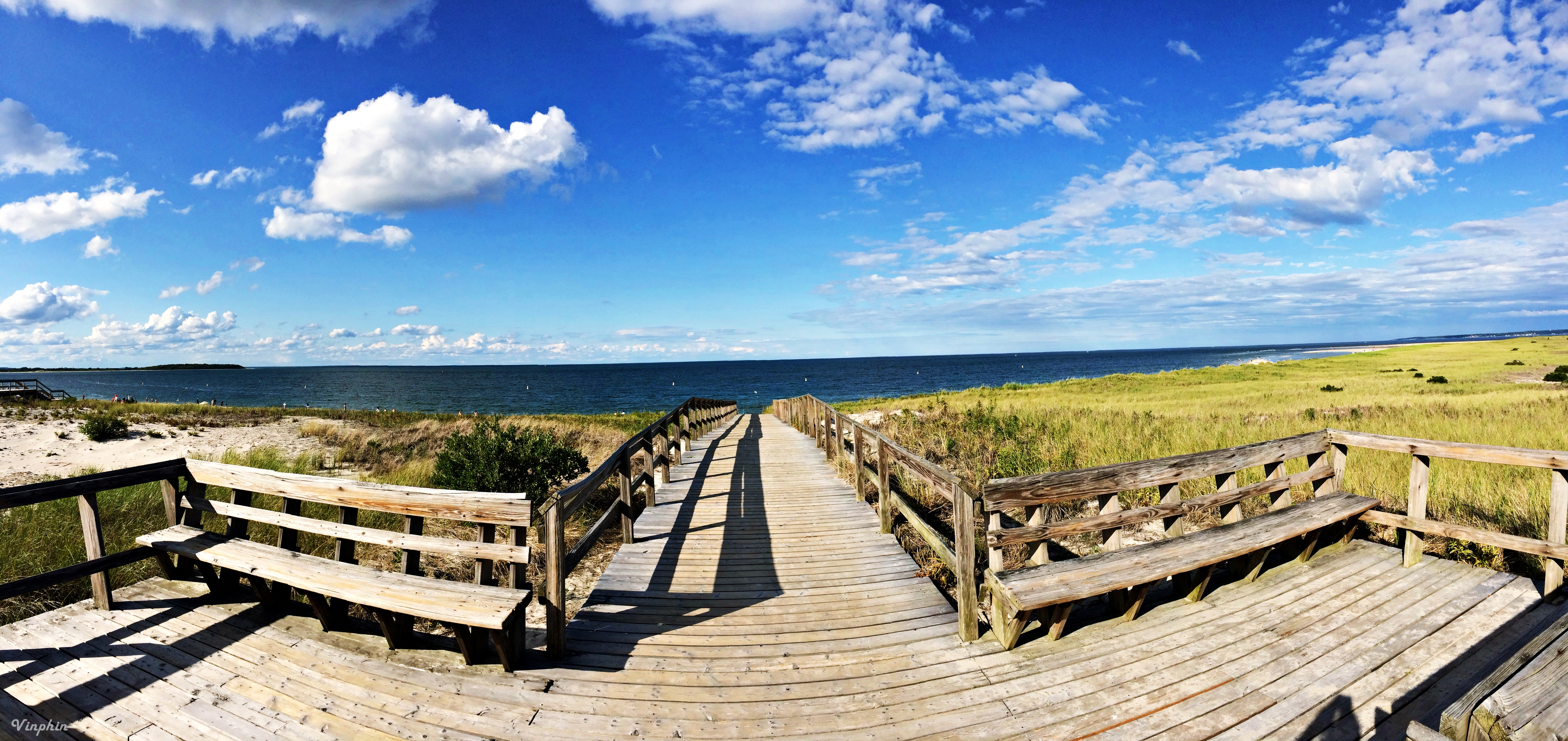 Panoramic view of crane beach